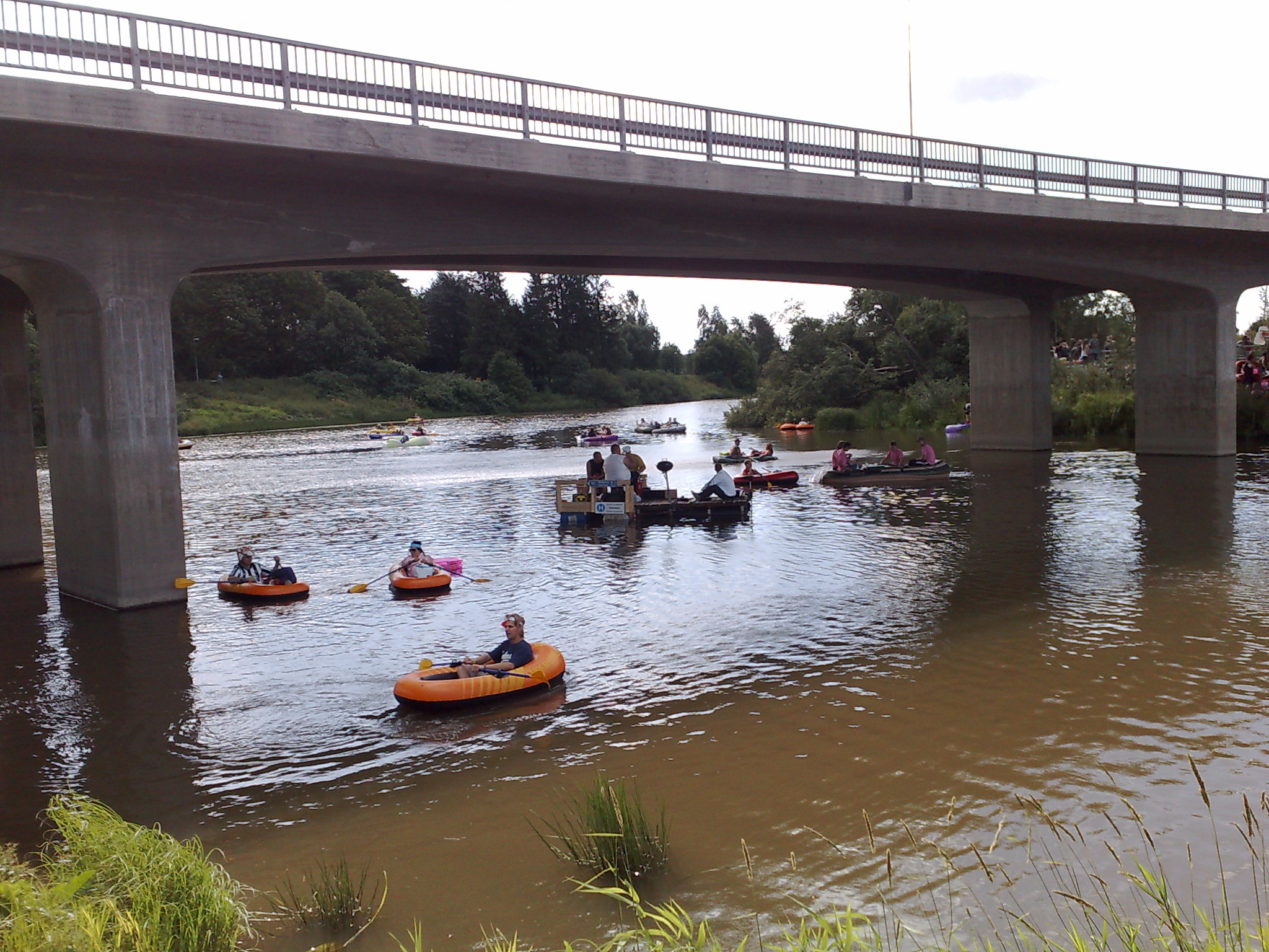 Kaljakellunta event on Vantaanjoki in Helsinki in 2007